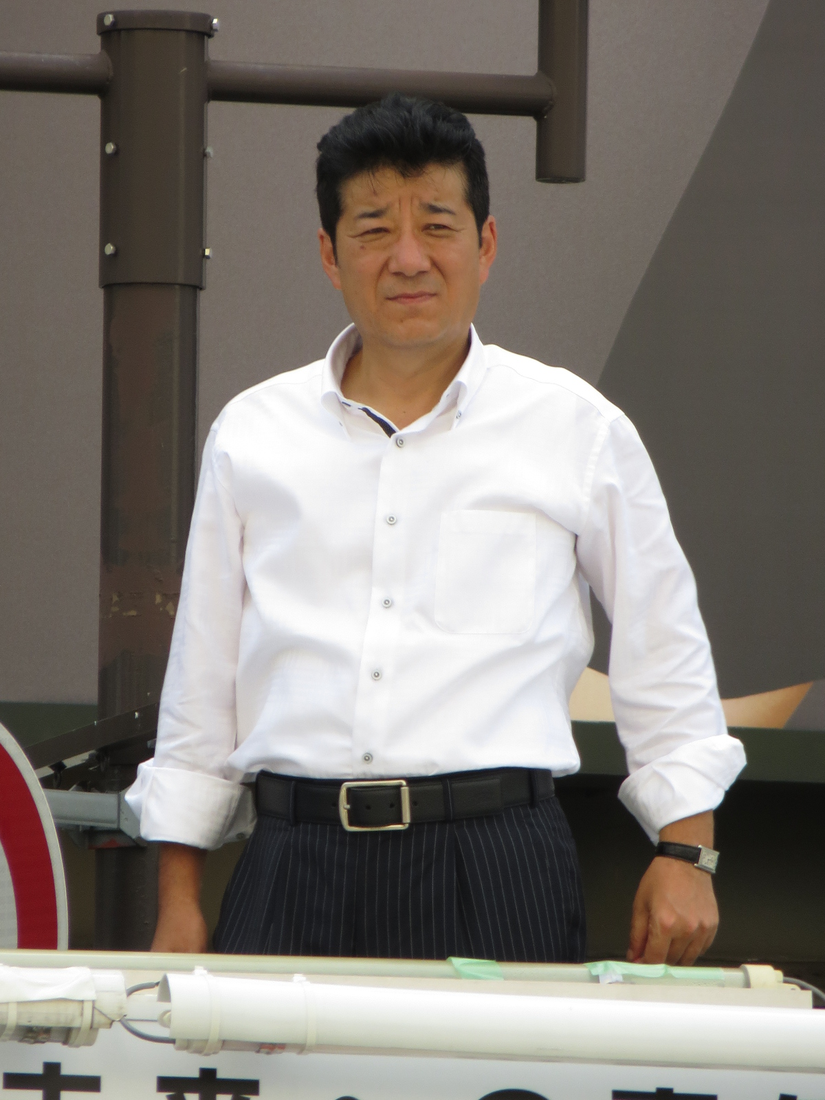 Ichirō Matsui (Governor of Osaka prefecture and secretary-general of both the Osaka Restoration Association and of the Japan Restoration Association).